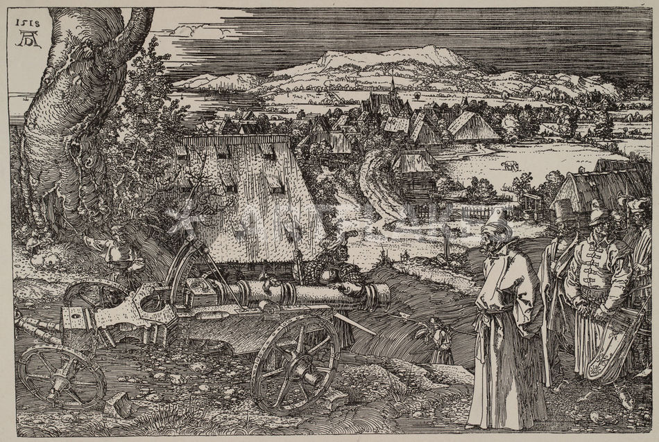 "The Great Gun" an allegorical representation of the danger the Turks represented for the German lands.